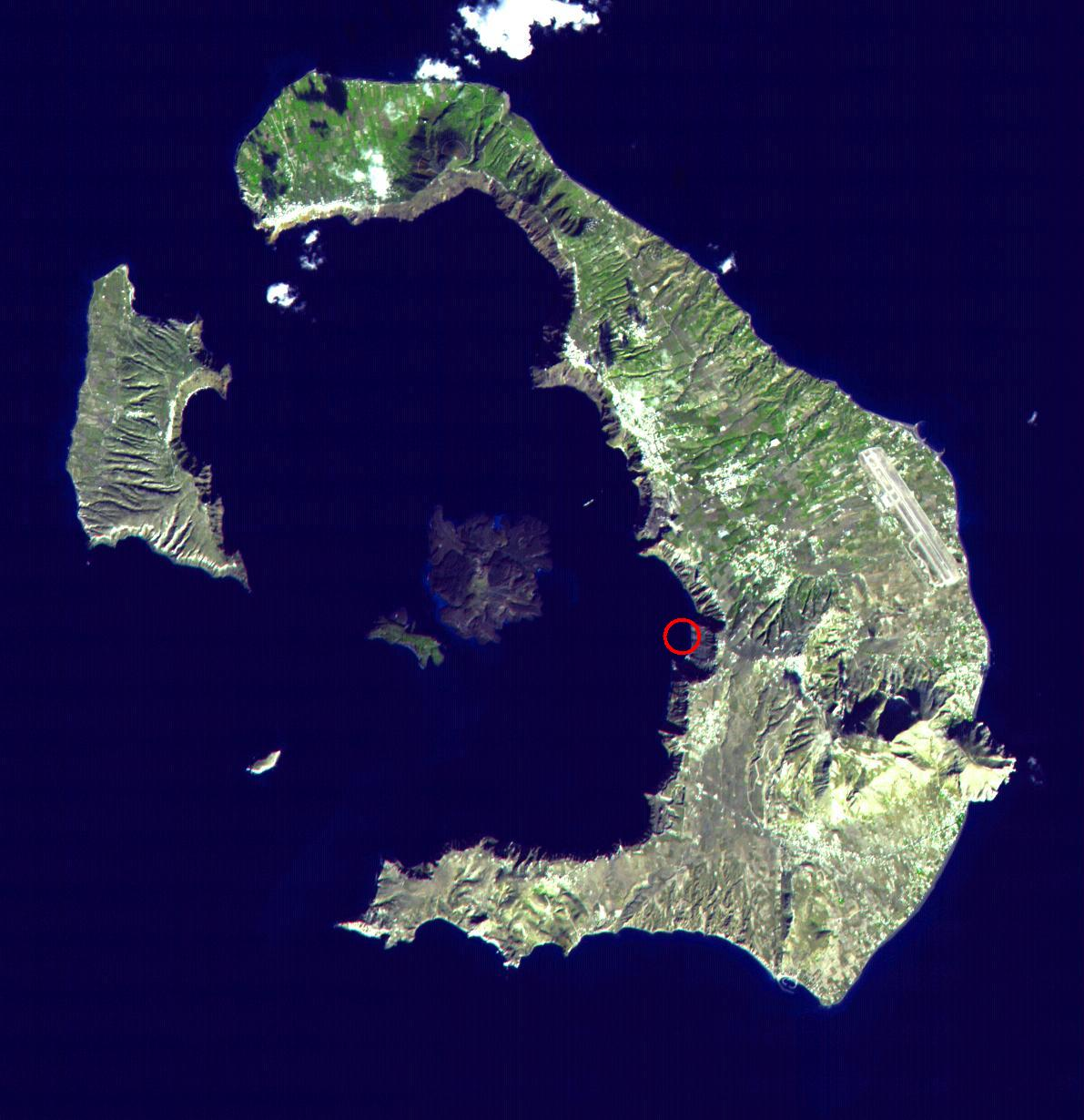 Landsat-Image of Santorini, with the place of M/S Sea Diamond's sinking highlighted.